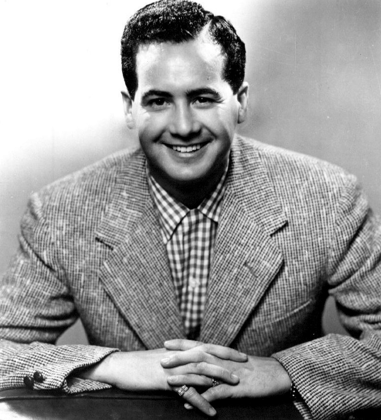 Photo of Canadian singer and actor Bobby Breen.